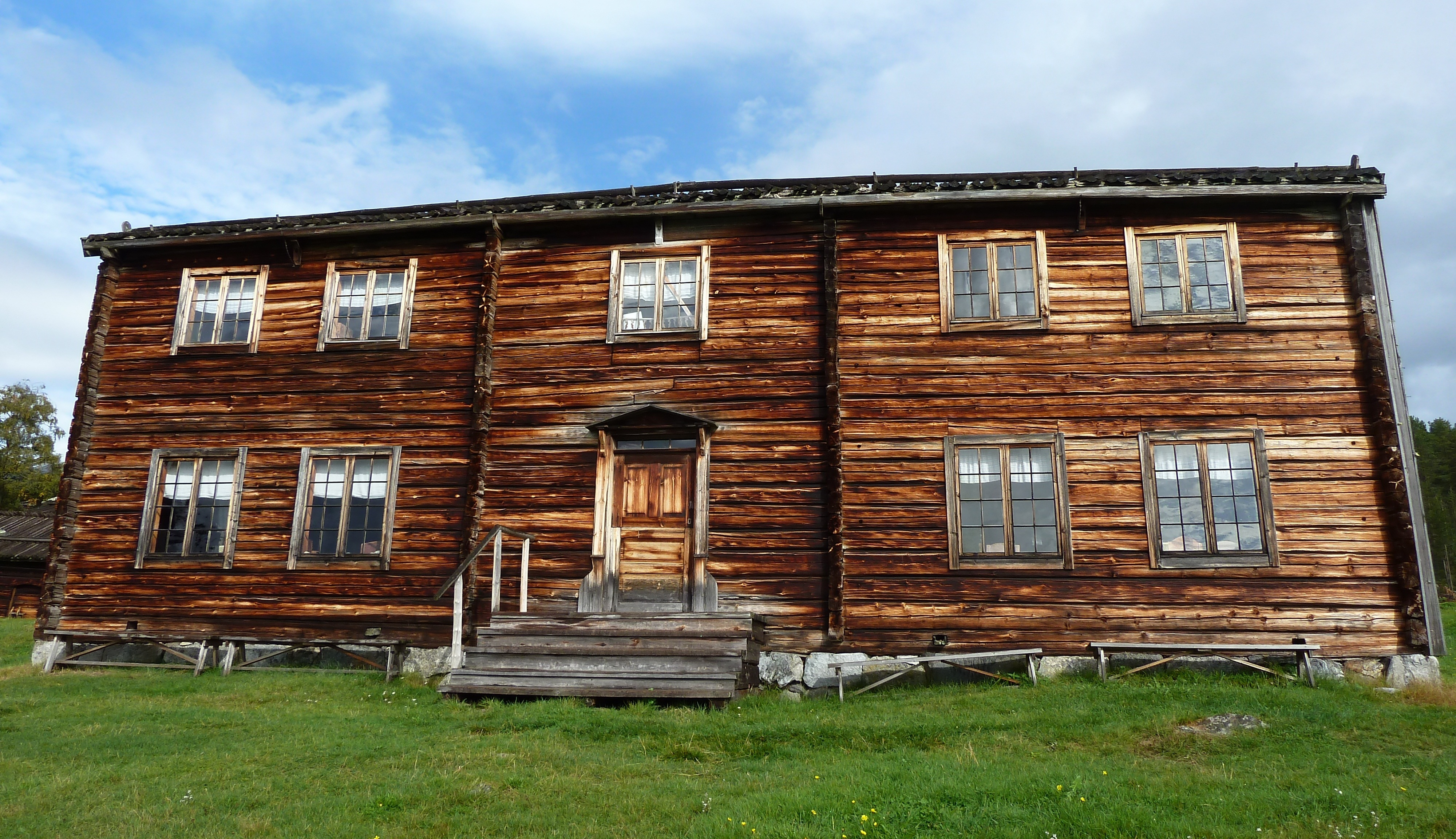 Gammelgården i Myckelgensjö, Myckelgensjö, Sweden.